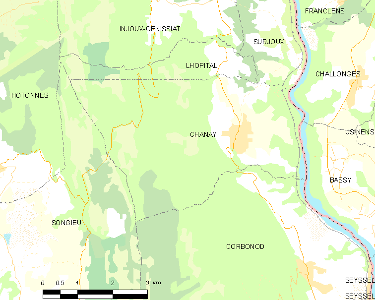 Map of French commune: Chanay Map commune FR insee code 01082.png